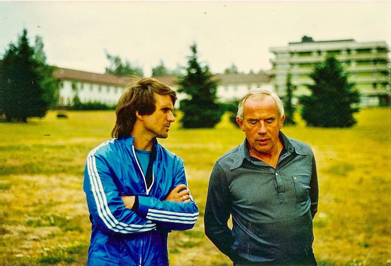 Wolfgang Overath and Hennes Weissweiler 1976 at Sportschule Grünberg Germany